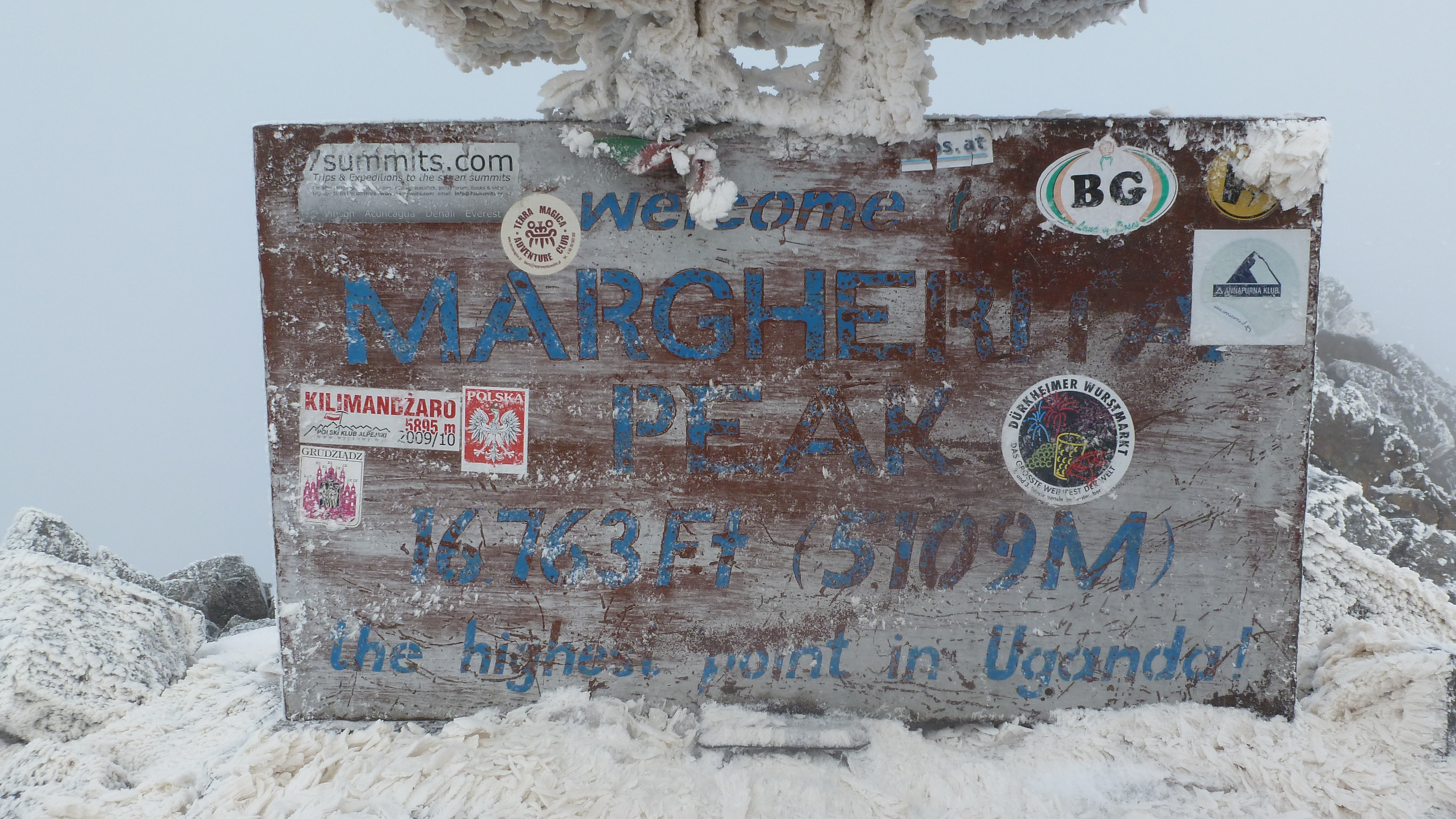 Summit board on Margherita Peak "Welcome to Margherita Peak 16763 ft (5109 m) the highest Point in Uganda"